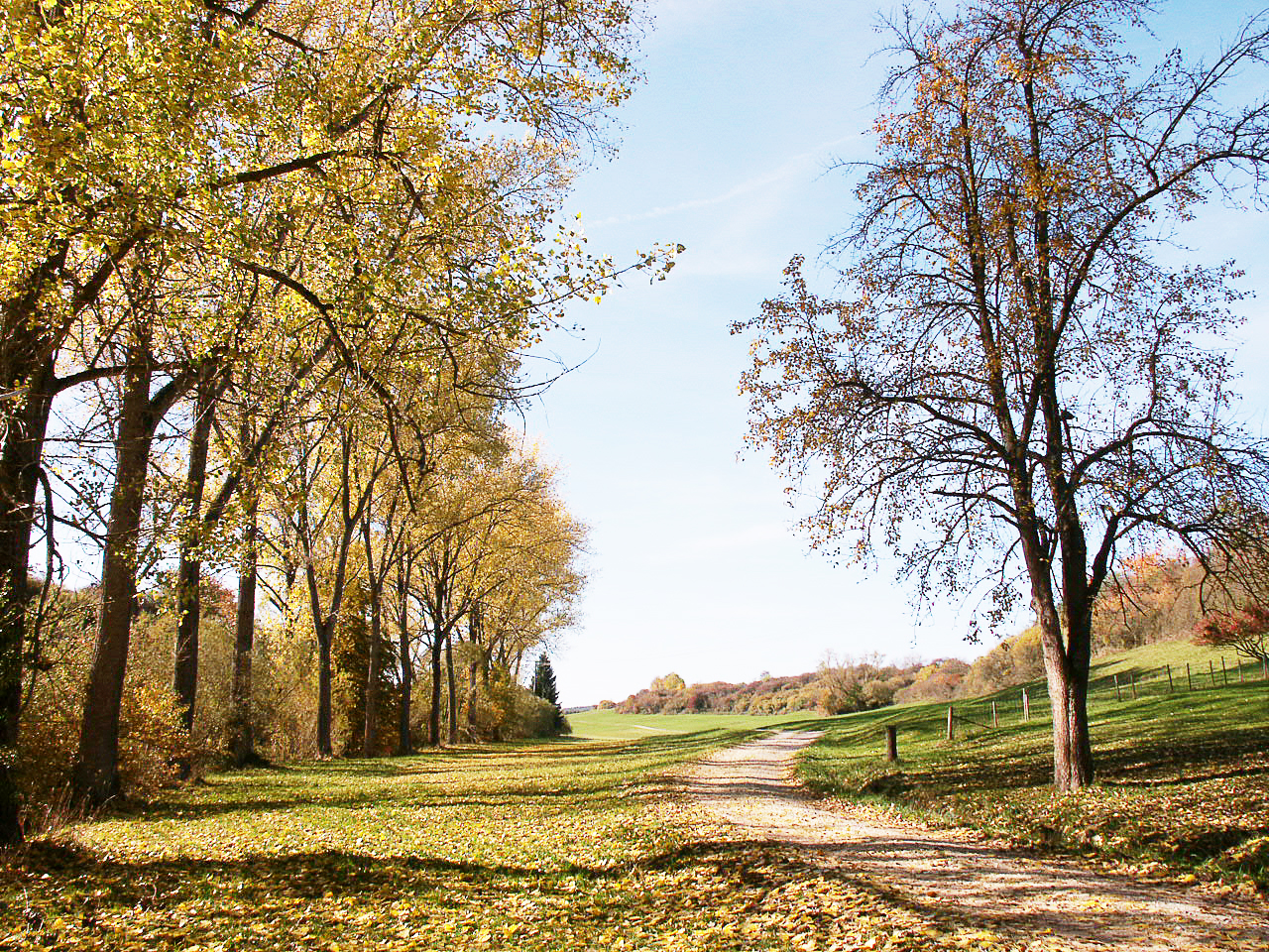 View of the Ostdorf country side. Ostdorf, Balingen, Wuettemberg, Germany.